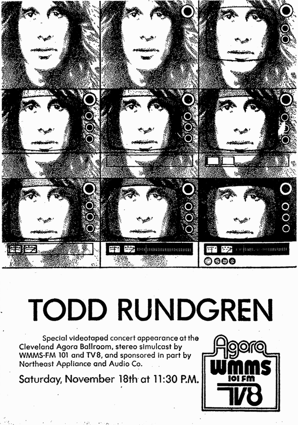 Print ad for Todd Rundgren concert simulcast on WJKW-TV/Cleveland and radio station WMMS/Cleveland